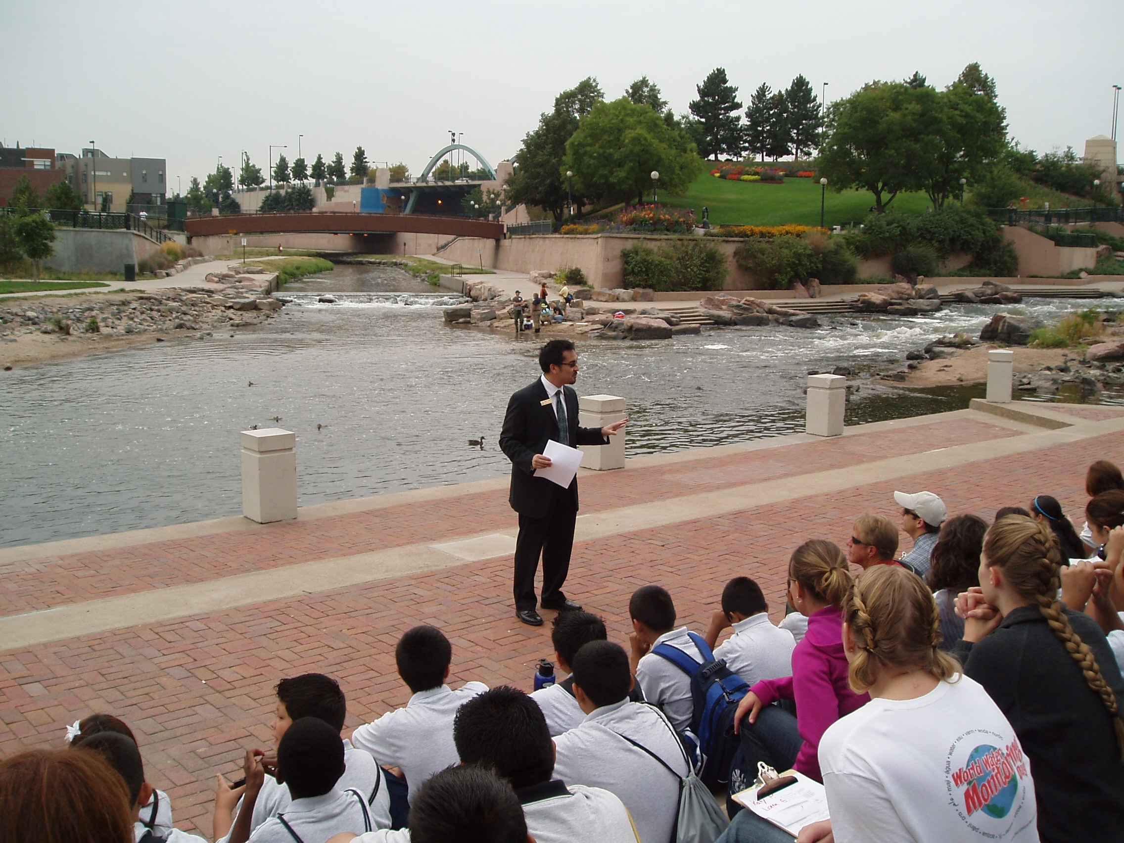 To celebrate World Water Monitoring Day, EPA partnered with CH2MHill and Water for People for a water monitoring education event, held September 16 at Confluence Park along the Platte River from 9:30 - 11:30 am. Students from local schools came out for a great day along the river to learn about their water resources.